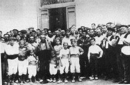 Nens del Vendrell first photo. 1926-10-15